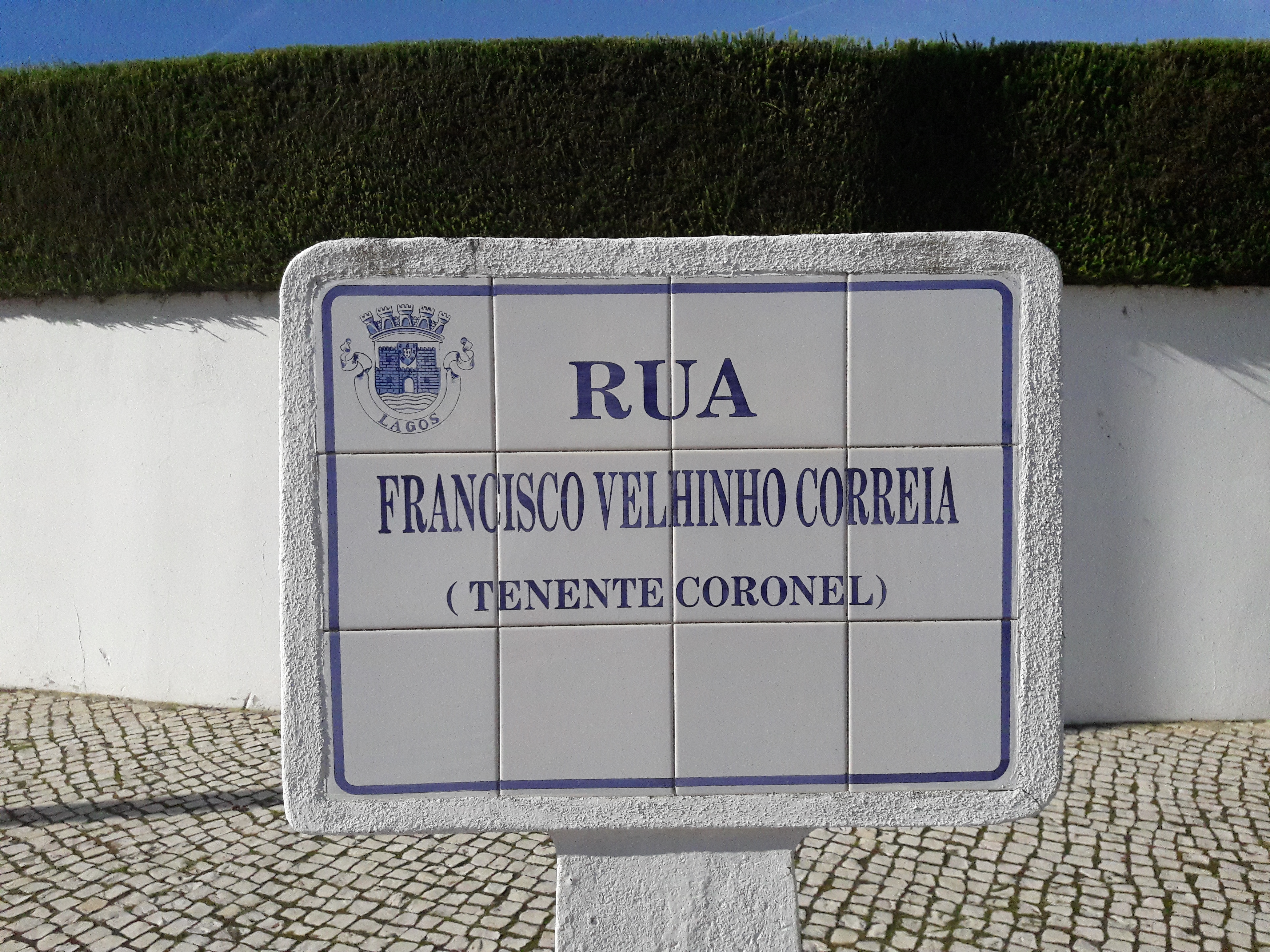 Street sign of Rua Francisco Velhinho Correia, in the city of Lagos, in southern Portugal.